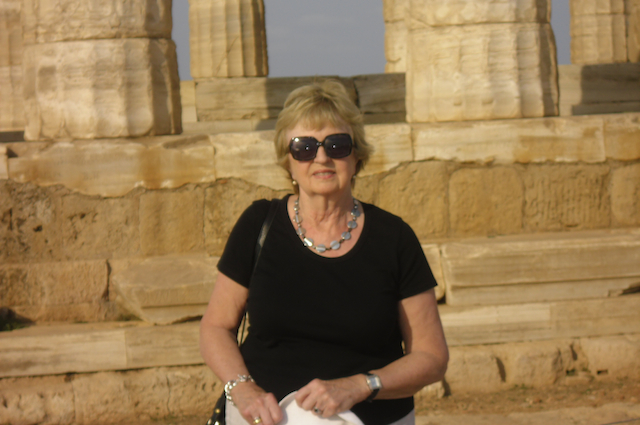 On Swan Hellenic cruise, 2012